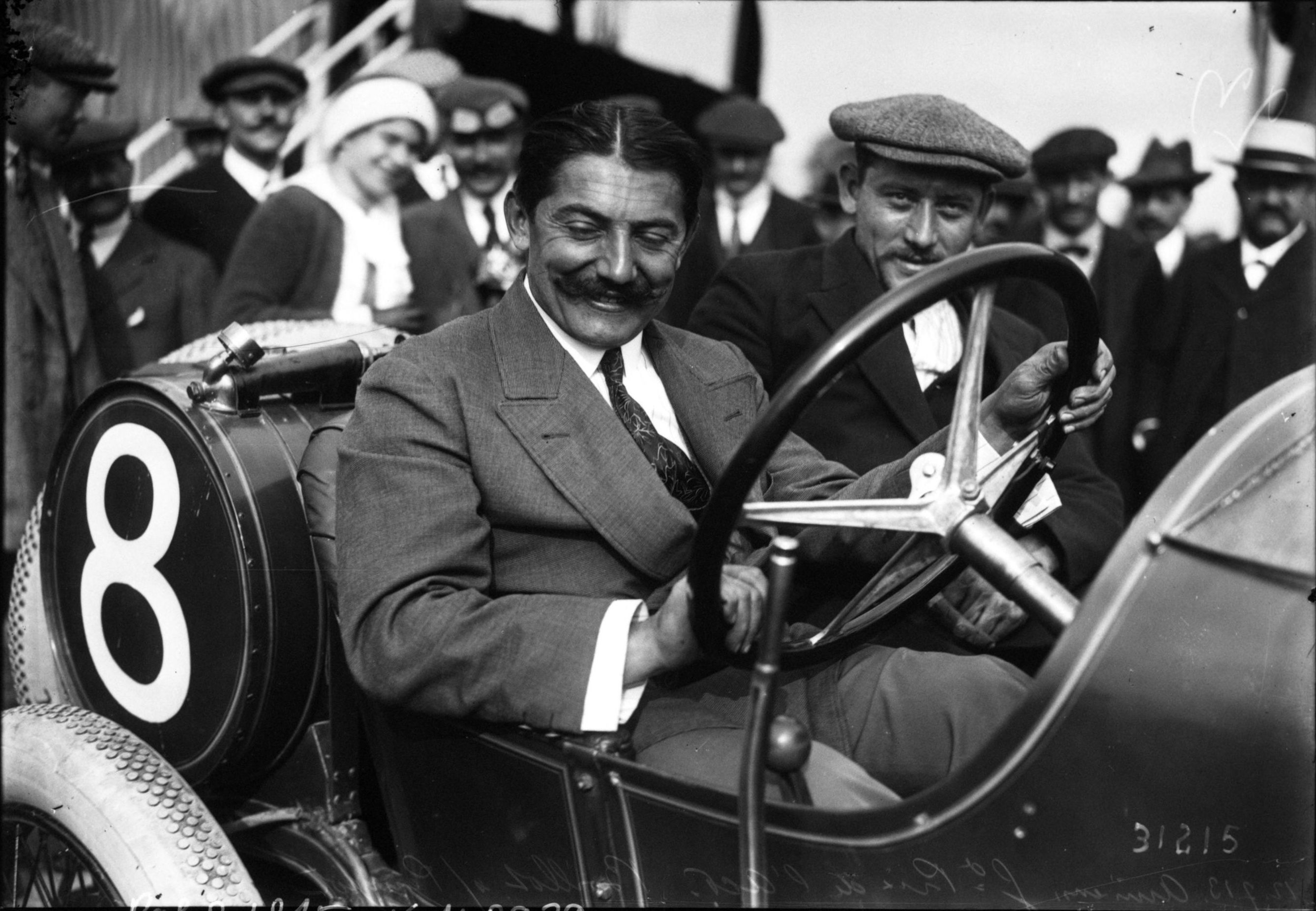 Georges Boillot at the 1913 French Grand Prix